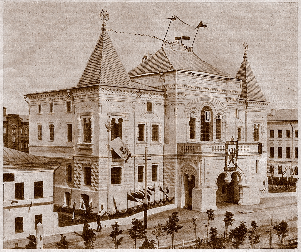 Romanovs museum in Kostroma (Russia)